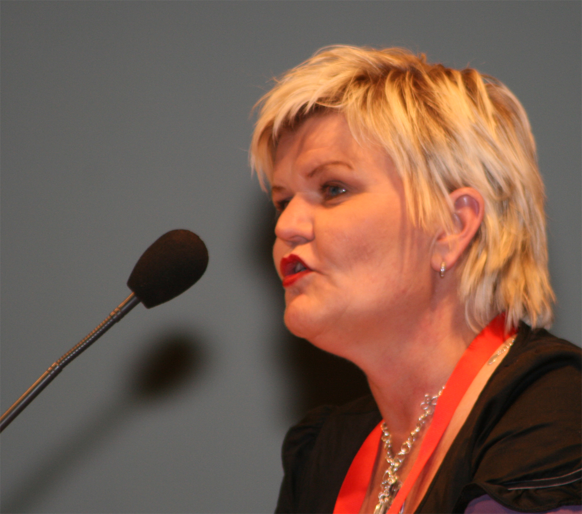 Eli Ljunggren